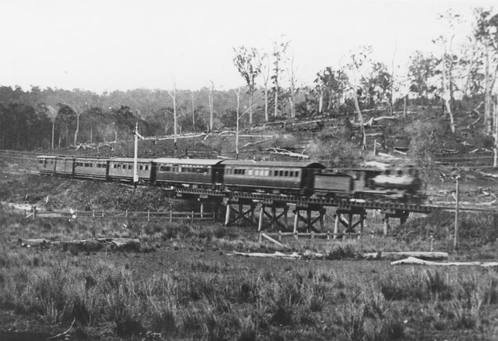 Passenger train from Cooroy crossing the bridge near the Butter Factory, Eumundi, 1915 The half past two passenger train from Cooroy crossing the bridge just beyond the Butter Factory. (Description supplied with photograph.).